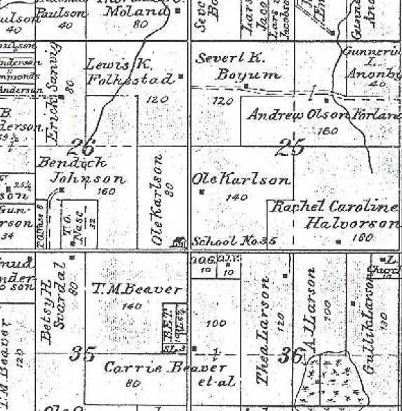 1905 plat map of the Ole Carlson House, Dodge County, Minnesota, USA.